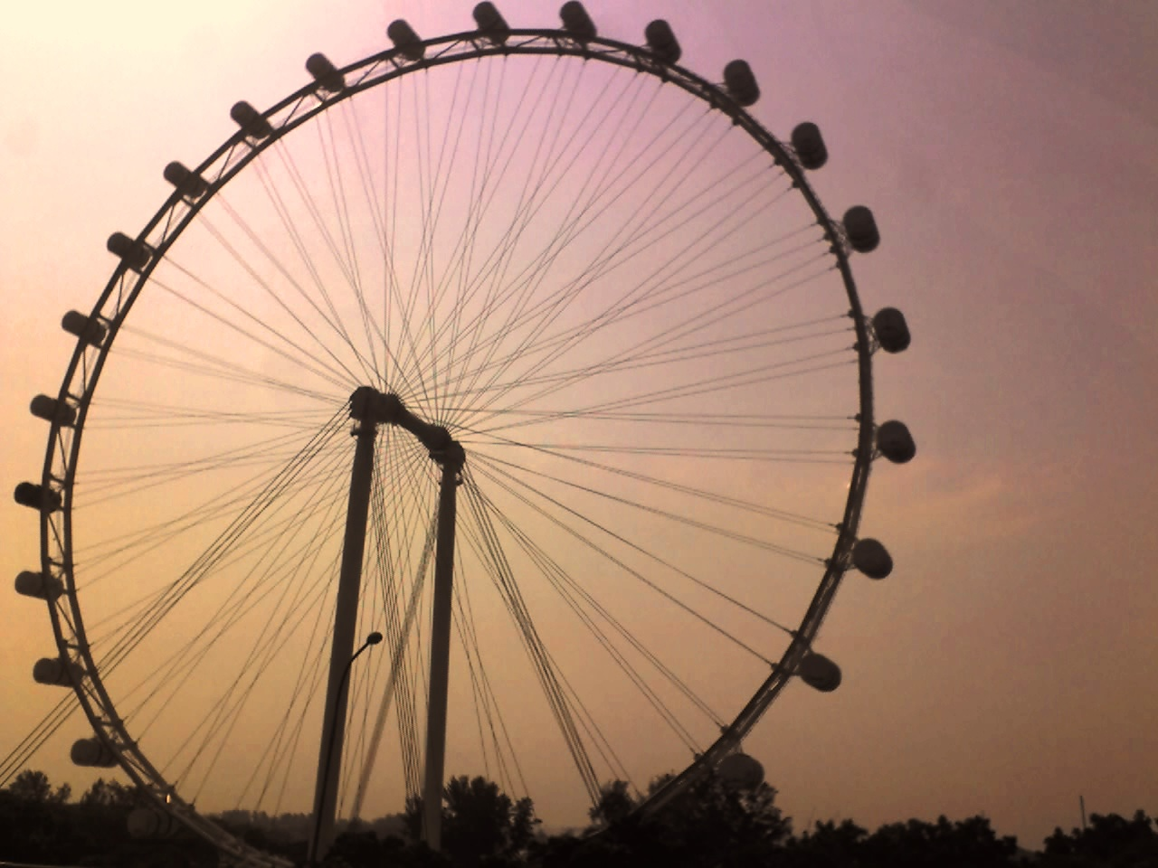 Singapore Flyer taken from East Coast Parkway on October 4 en:2007.